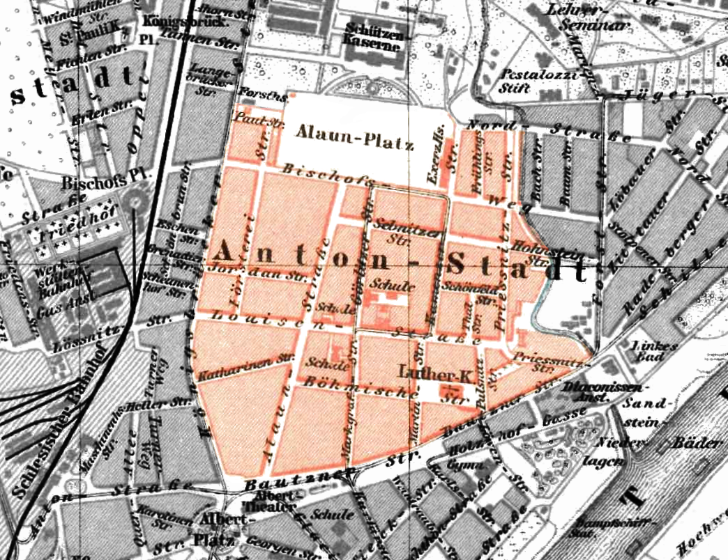 Dresden, Germany, about 1895, quarter Antonstadt (nowadays Äußere Neustadt) pointed out